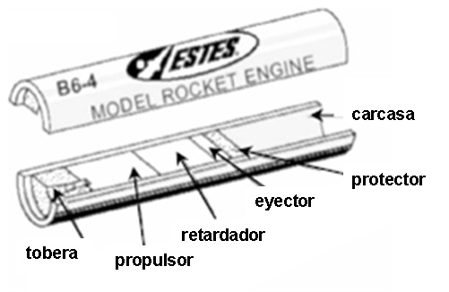 Single use Black powder engine for model rocketry.